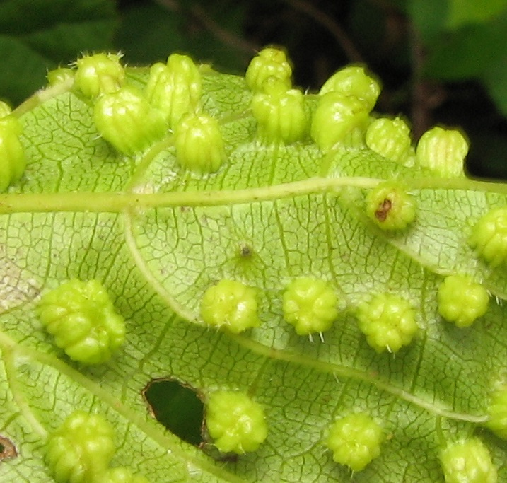 Daktulosphaira vitifoliae, galls on Vitis. Horsham Trail, Montgomery County, Pennsylvania, USA.